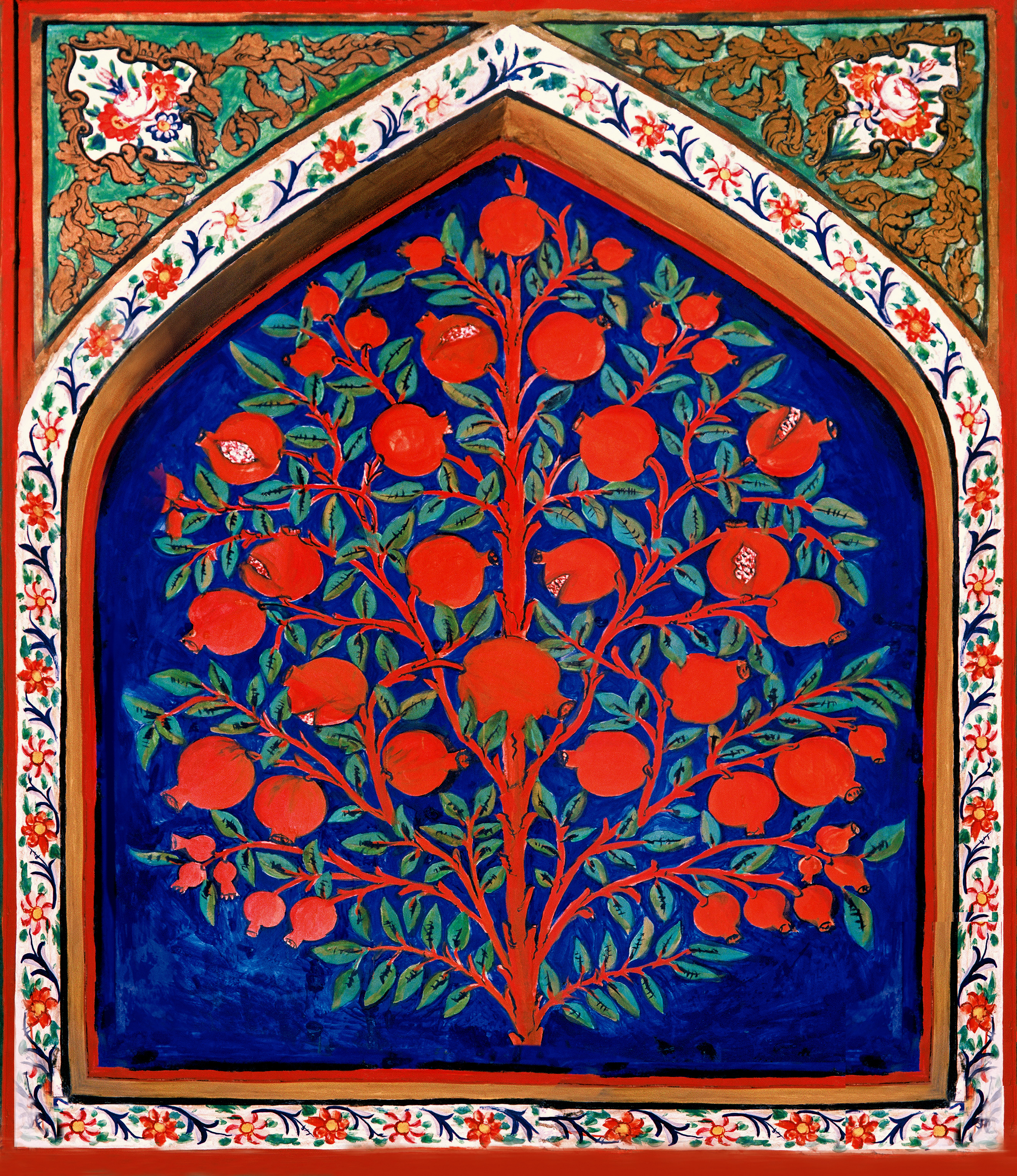 Painting of life tree in interoer of Shaki Khan palace, Azerbaijan NAtional Art Museum, Usta Gambar Garabagi